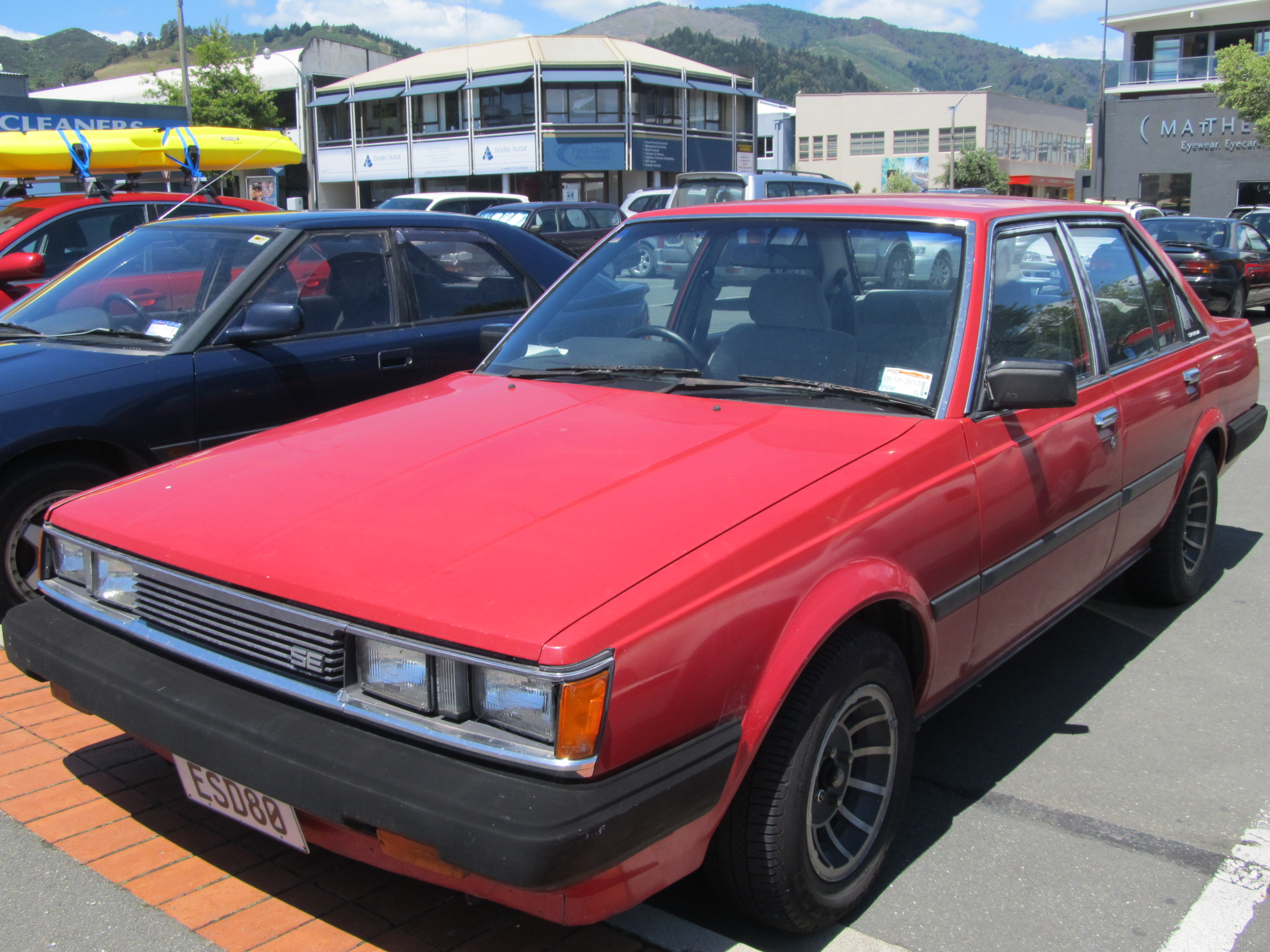 ESD80 This generation of Carina/Corona is now reasonably rare here, so when I encountered this one in central Nelson a while back, I felt it was only fair to grab a snap.